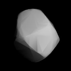 3D convex shape model of 1407 Lindelöf, computed using light curve inversion techniques. J. Hanuš, J. Ďurech, M. Brož, B. D. Warner (June 2011). "A study of asteroid pole-latitude distribution based on an extended set of shape models derived by the lightcurve inversion method". Astronomy and Astrophysics 530: A134. ISSN 0004-6361. arXiv